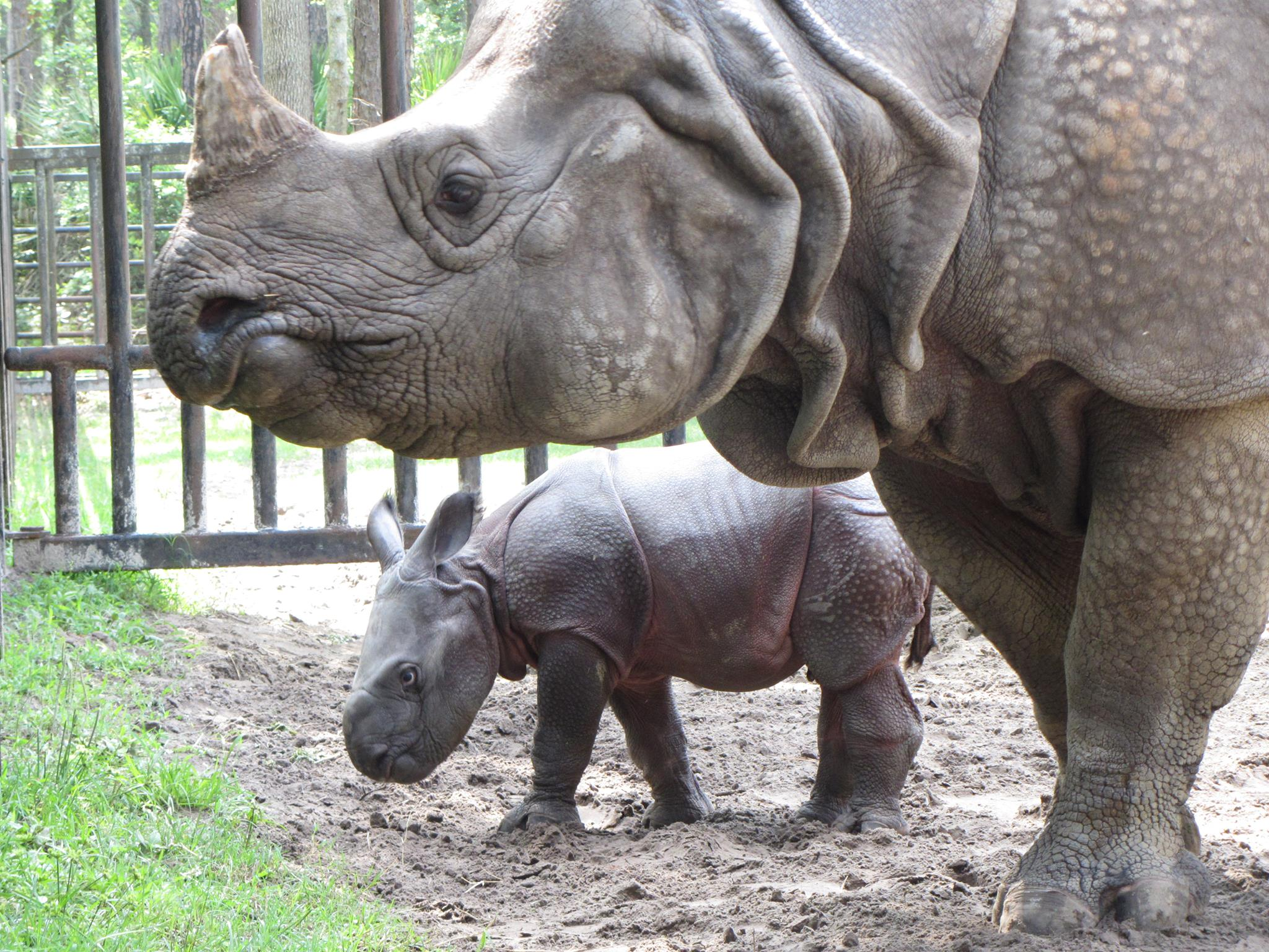 A greater one-horned rhino named Chitwan and her baby, born on May 9, 2013, at White Oak Conservation.